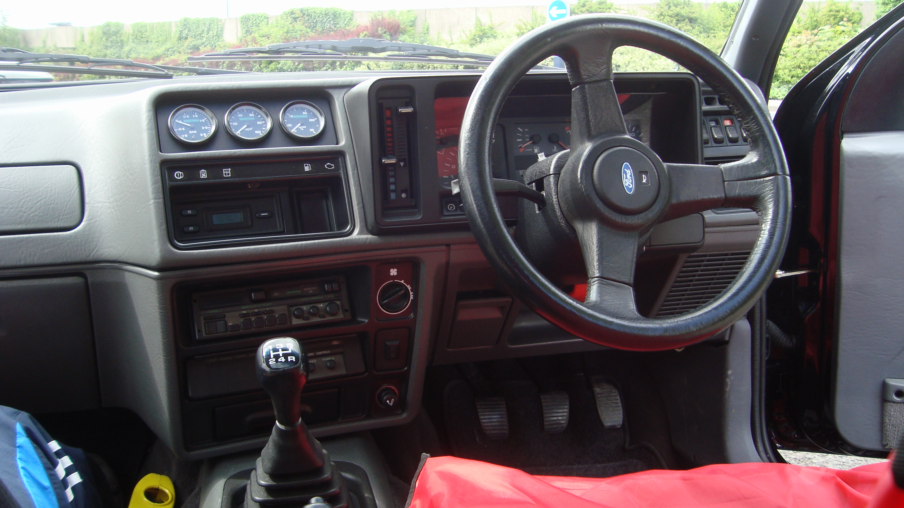 The interior of the Cosworth. I'm so glad Andy decided to keep the original radio in, it was working very nicely